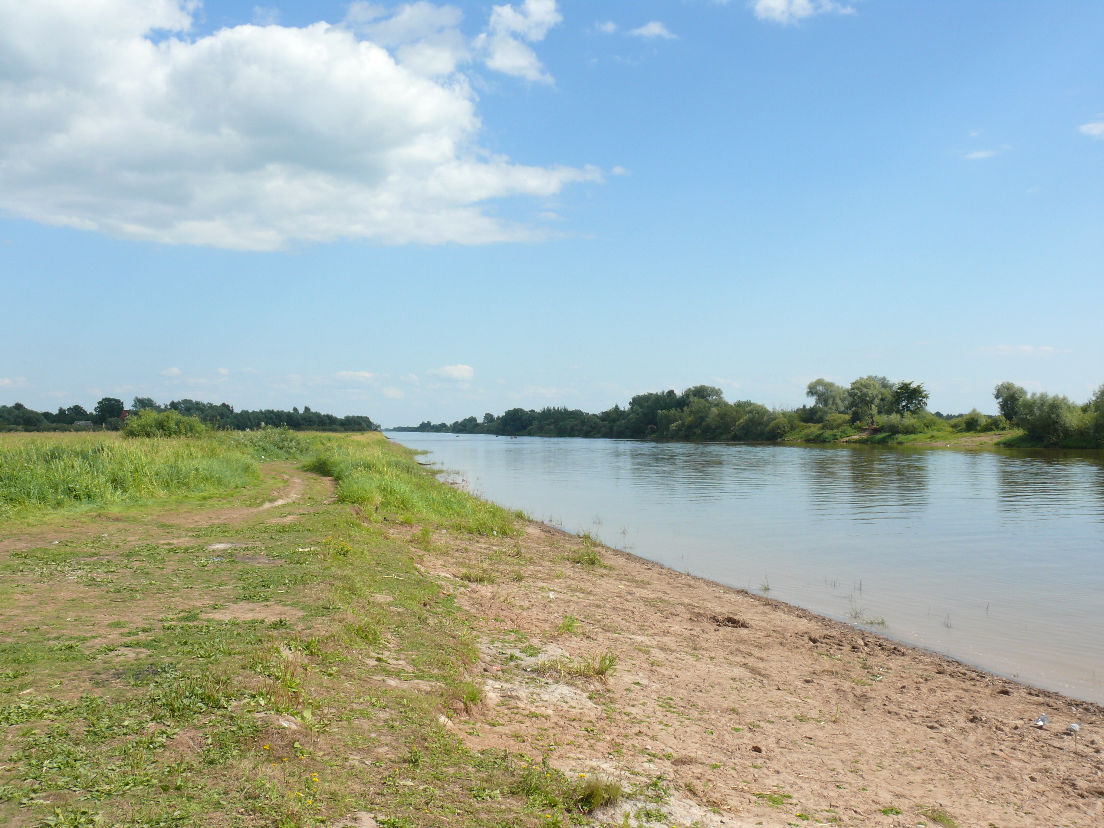 View at Siversov canal from the northern bank near Rurik hillfort